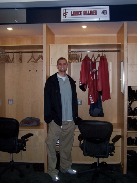 Lance Allred, an American professional basketball player.